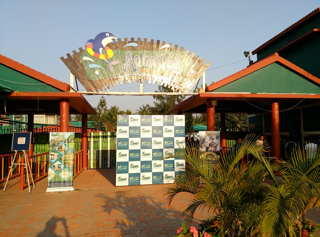 Aquatica water park